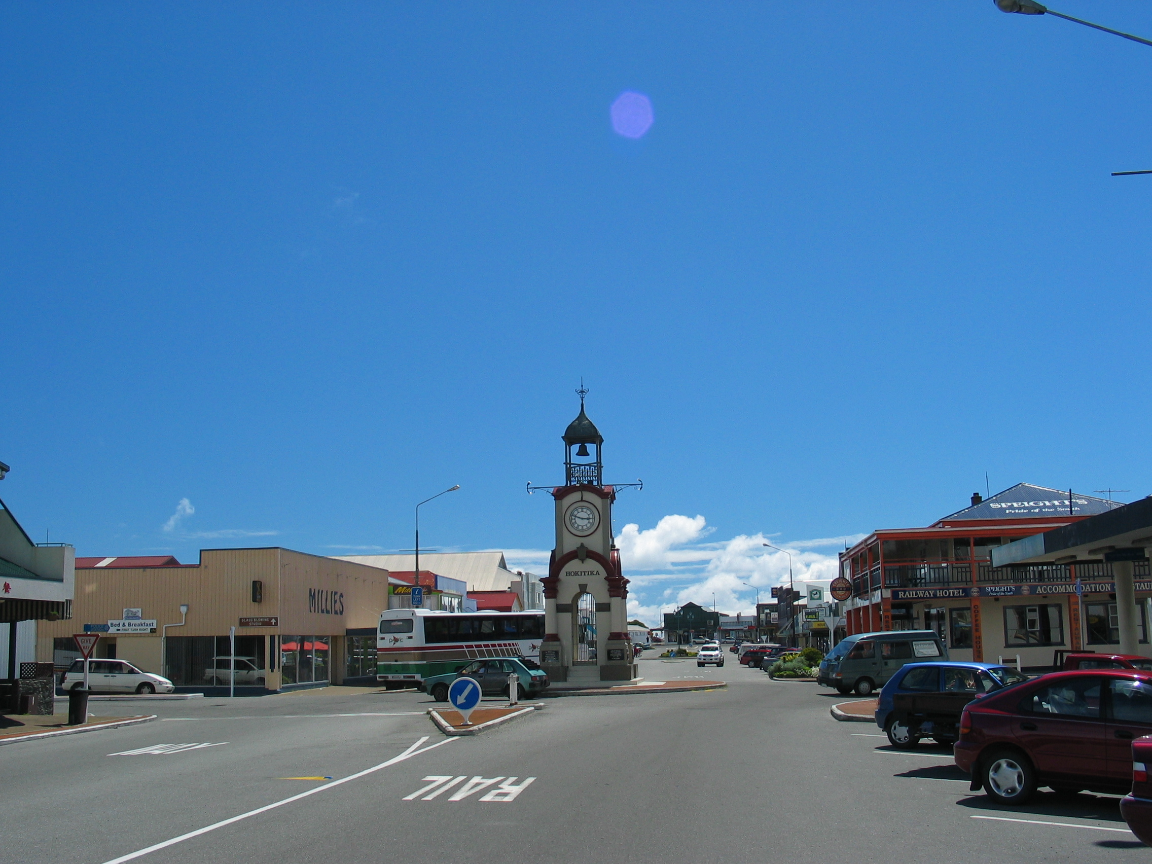 Hokitika, South Island, New Zealand